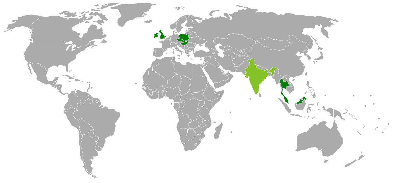 Tesco Stores international, including joint venture in India.